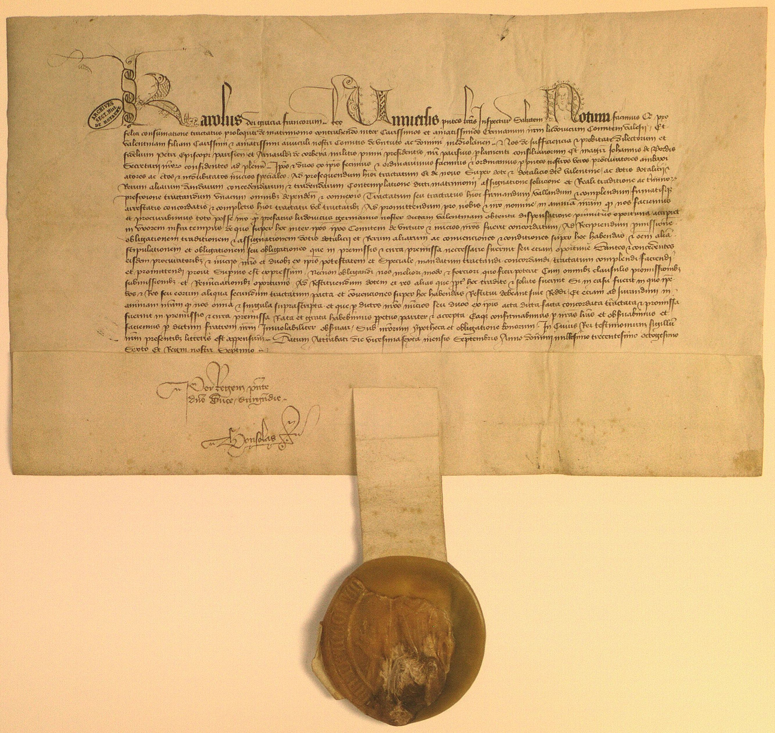 A charter of King Charles VI of France.